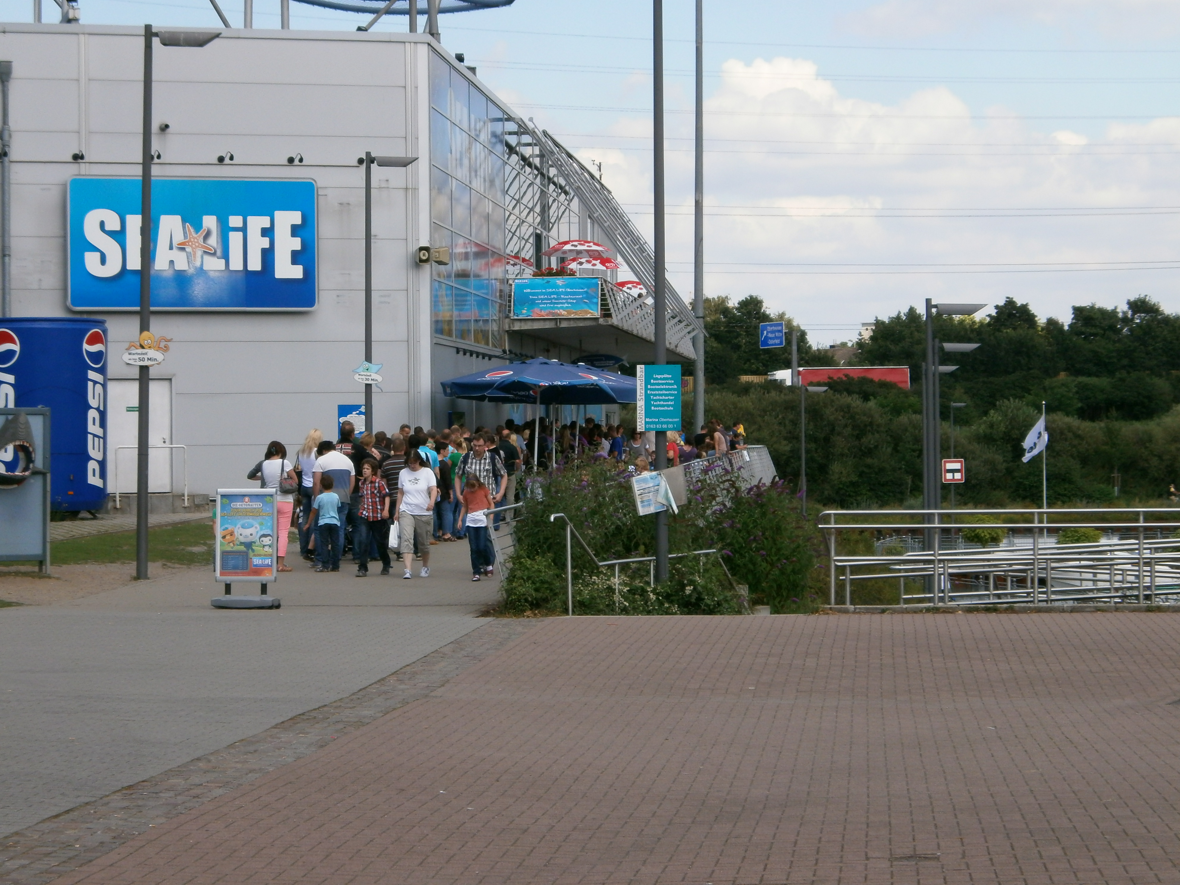 Sea Life Oberhausen, Germany